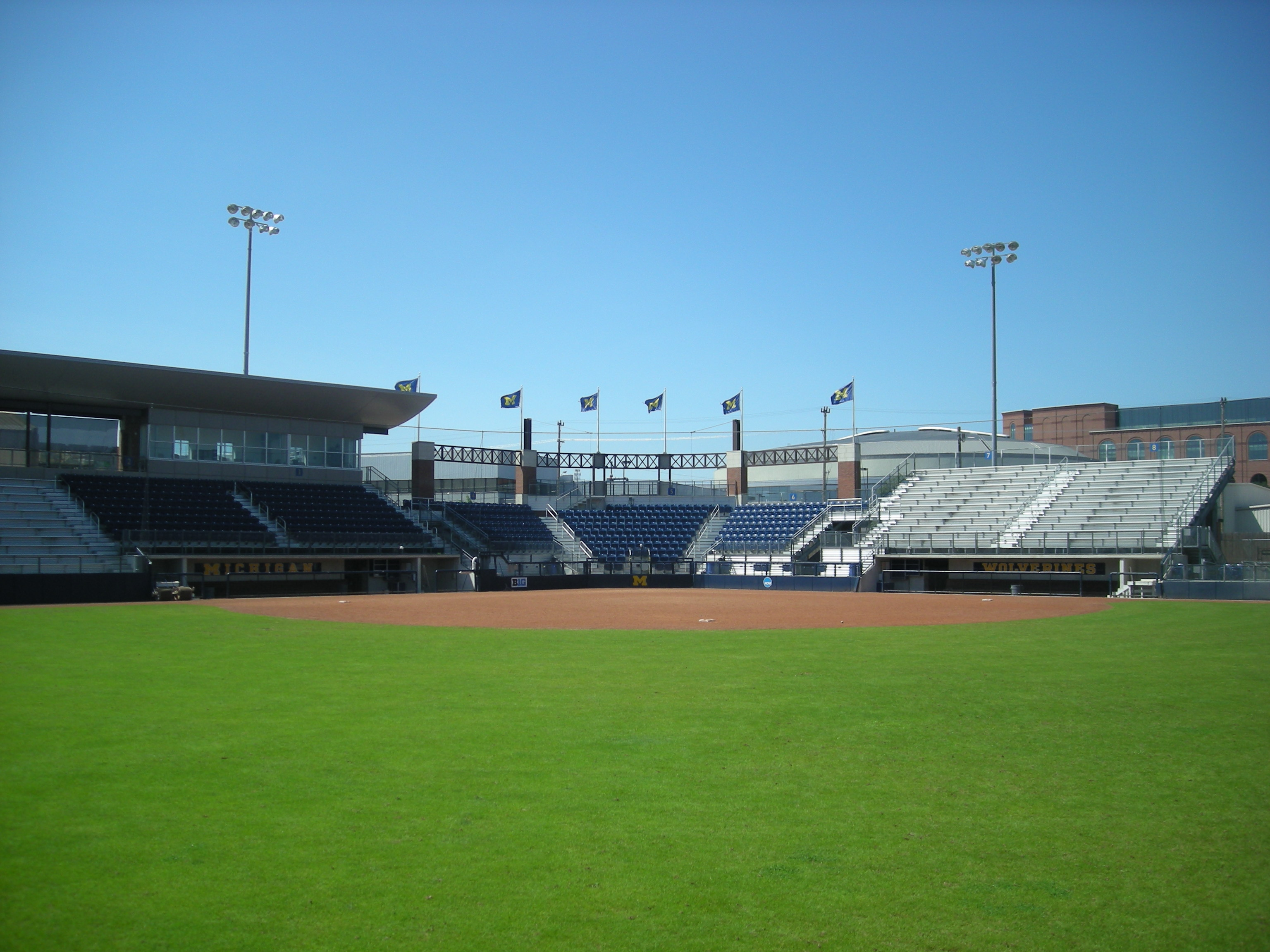 Alumni Field on the south campus of the University of Michigan in Ann Arbor, Michigan (United States).